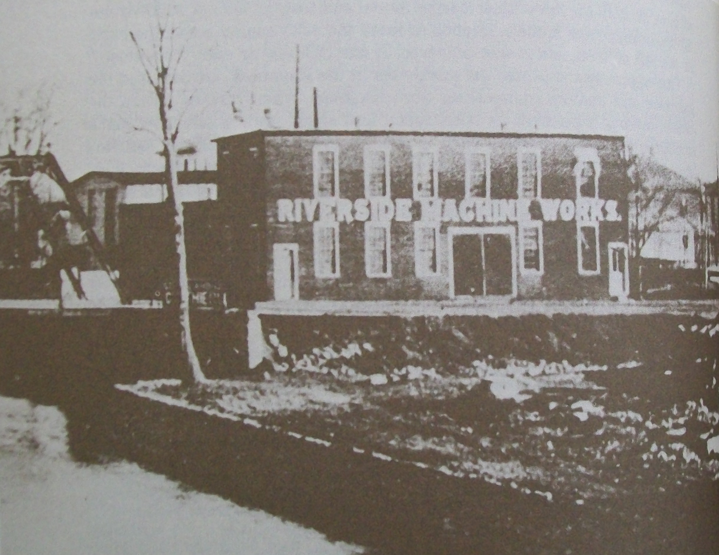 Riverside Machine Works, owned by Elmer and Edgar Apperson where Elwood Haynes produced the United States' second automobile